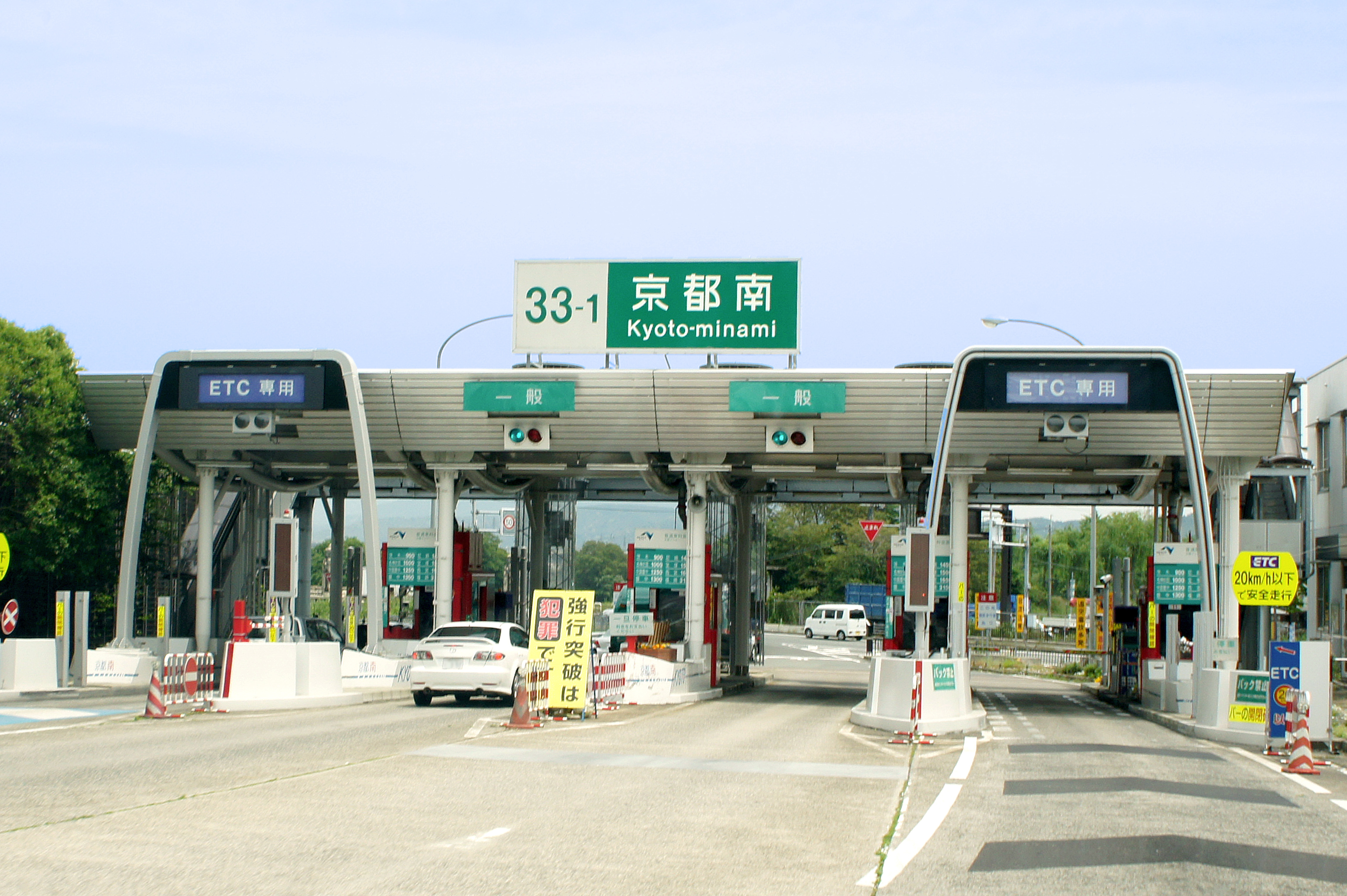 Kyoto-minami Interchange, 15 Takedatanakadencho Fushimi-ku Kyoto-City Osaka Japan.